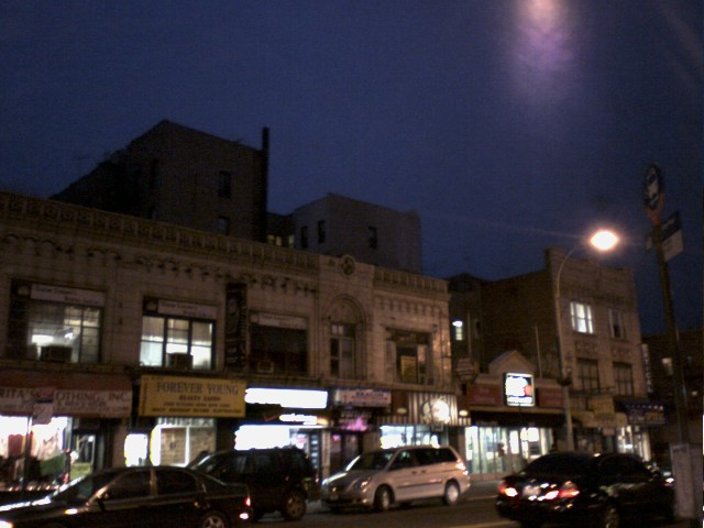 Avenue M in midwood between 18th and 19th streets